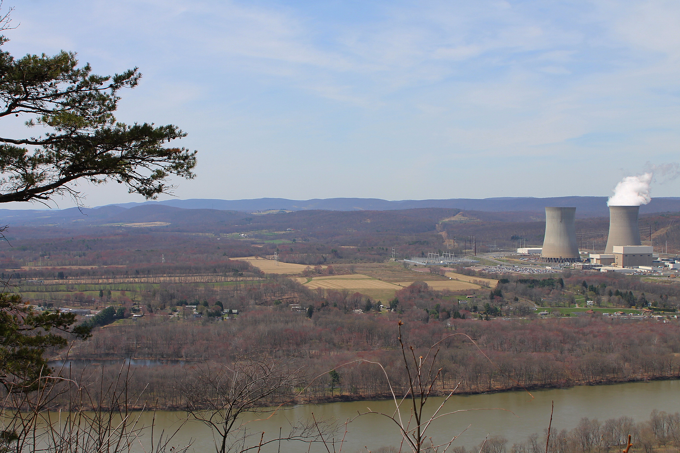 Salem Township, Luzerne County, Pennsylvania from Council Cup. The Susquehanna Steam Electric Station is at right and Bell Bend is in the foreground.